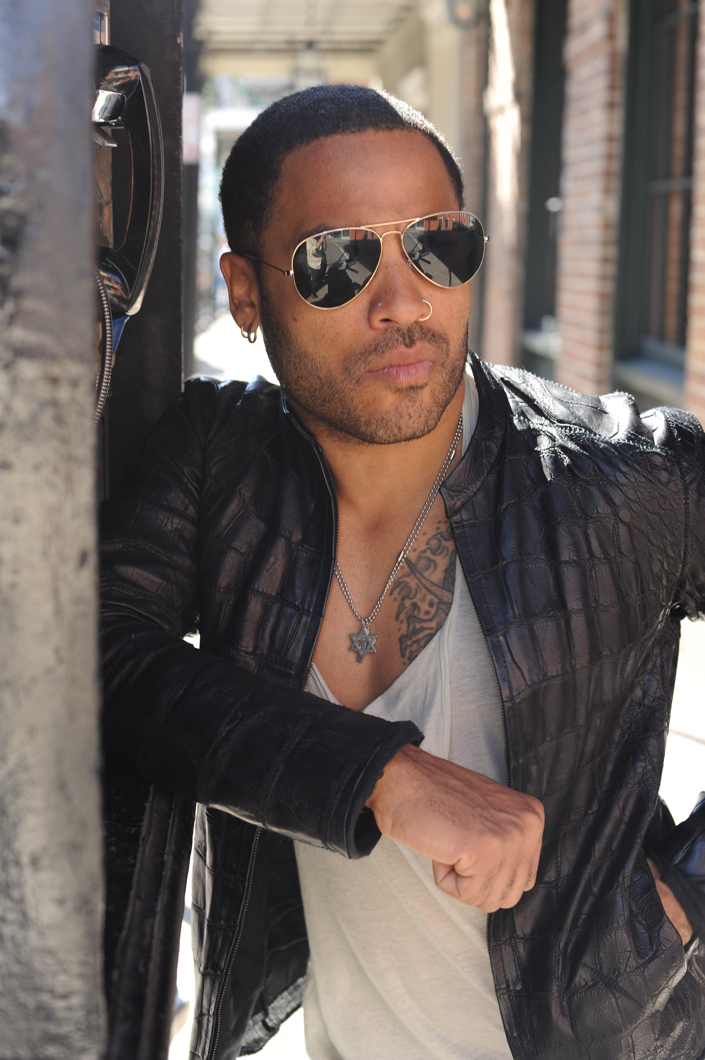 American artist Lenny Kravitz in 2011